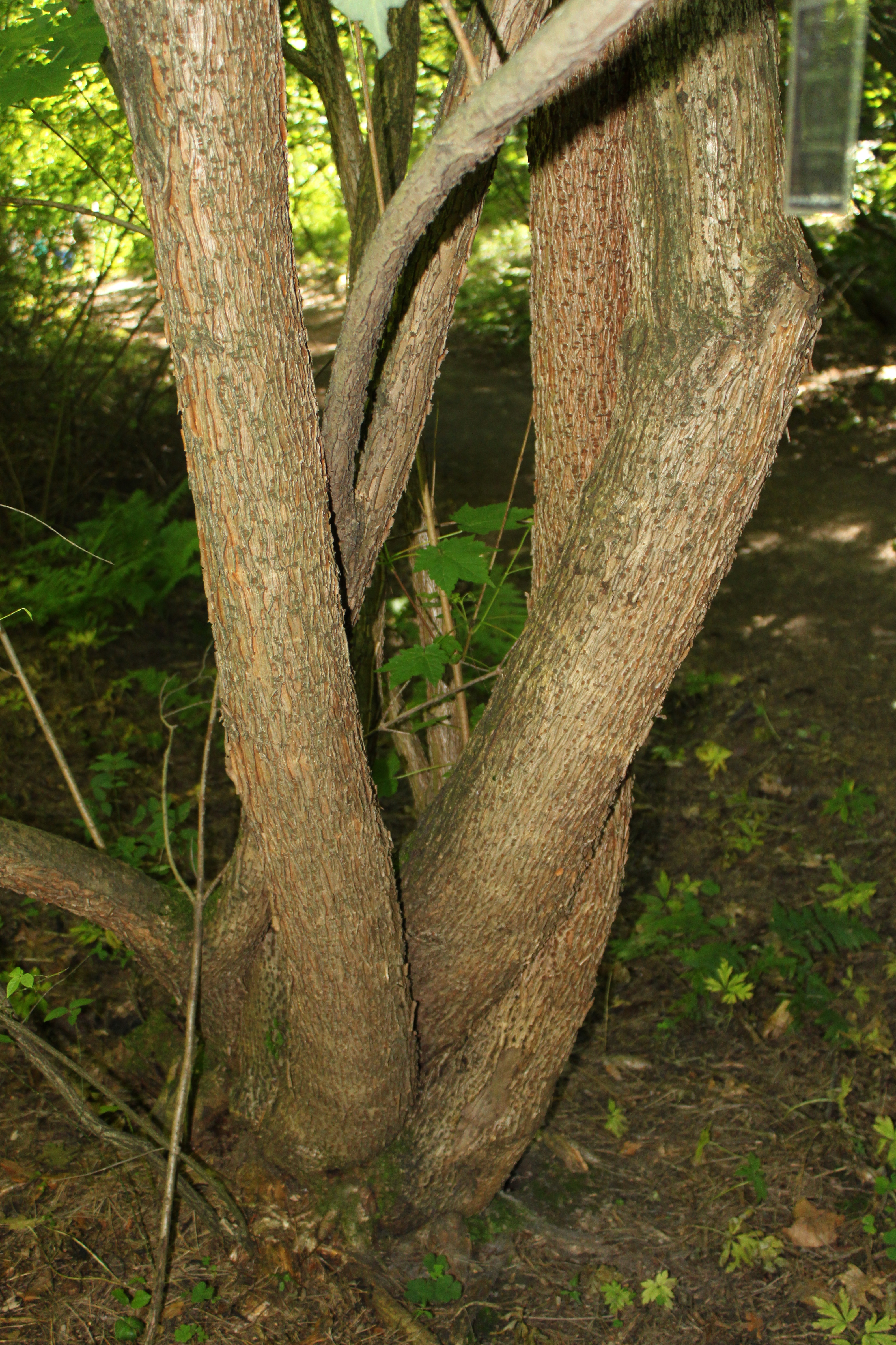 Acer ukurunduense trunk in Rogów Arboretum, Poland